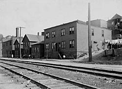 Historic view of Irishtown Bend, c. 1922 Courtesy of the Cleveland Press Collection, Cleveland State University Library